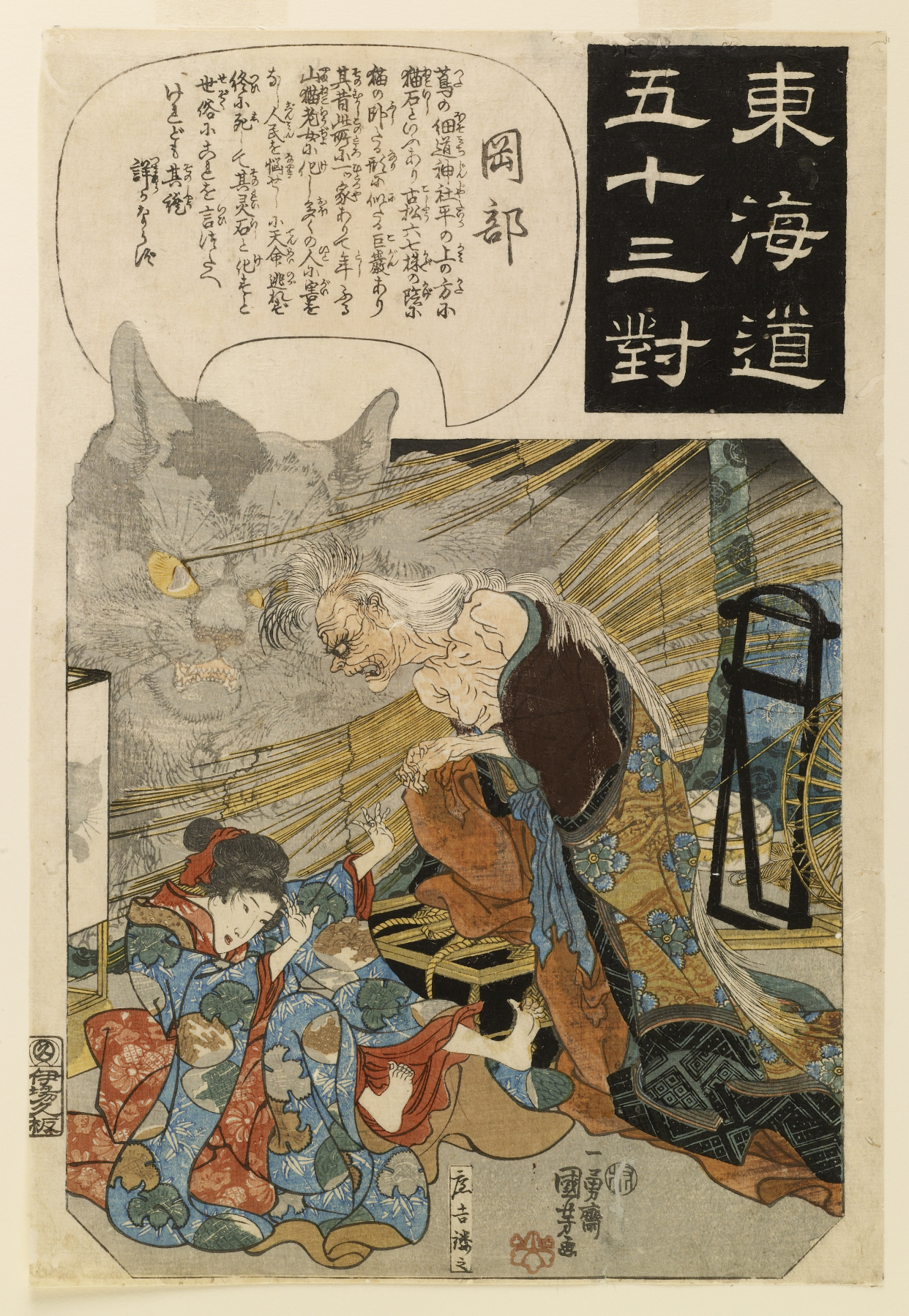 According to legend, there was an old witch living along the Tokaido road who would assume the shape of a giant cat in order to waylay young women who were visiting a local shrine. Part of the series The 53 stations of the Tokaido in pairs(or "53 Parallels for the Tōkaidō Road"), a series of woodcuts composed by Hiroshige, Kuniyoshi and Kunisada and issued around 1845 by different publishers..